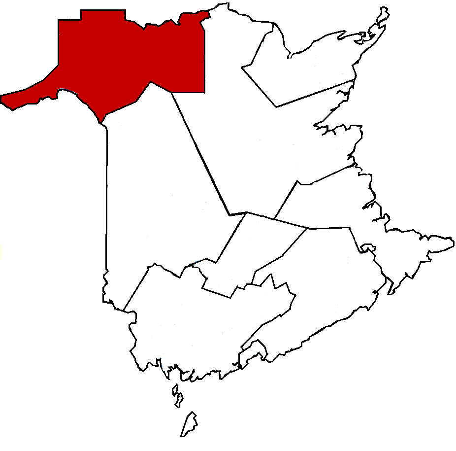 Map of the Madawaska—Restigouche electoral district. Based on Earl Andrew's maps, created by SimonP.